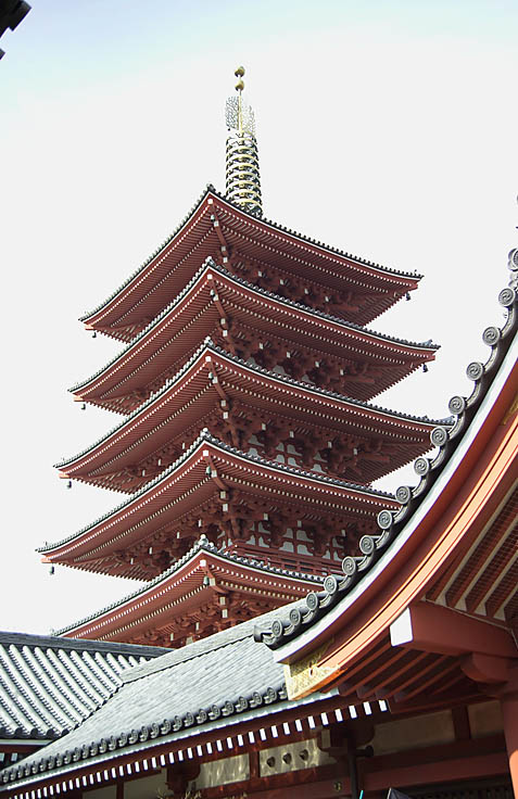 Sensoji Pagoda Buddhist temple Asakusa Taito-ku Tokyo Japan. The Five-storied Pagoda at Sensoji in Asakusa is a famous landmark in Tokyo. I took this photo.